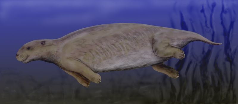 Prorastomus sirenoides, an early Sirenian from the Early Eocene of Jamaica, pencil drawing, digital coloring